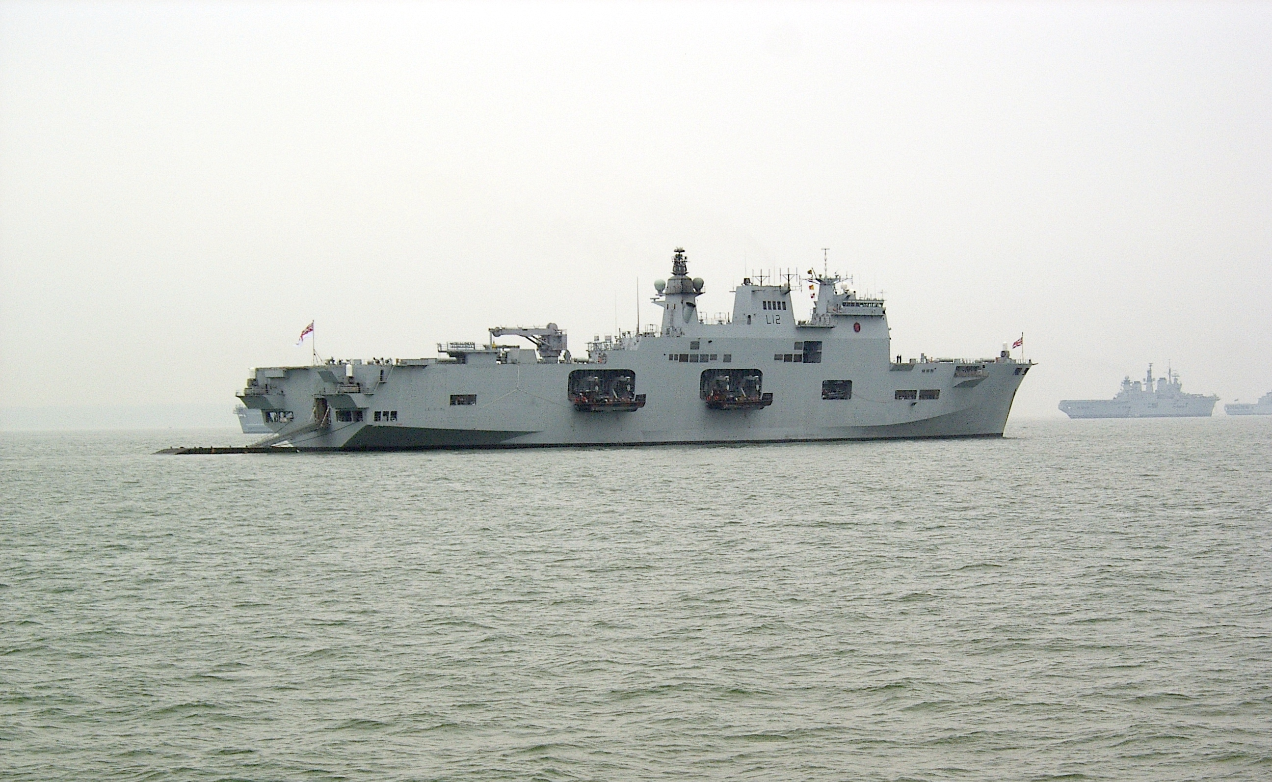 HMS Ocean at the 2005 International Fleet Review. HMS Illustrious (R06) can be seen in the distance